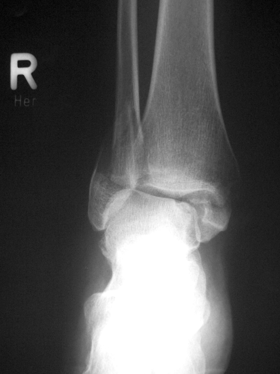 Fractures of medial malleolus and lateral malleolus. Bimalleolarfraktur